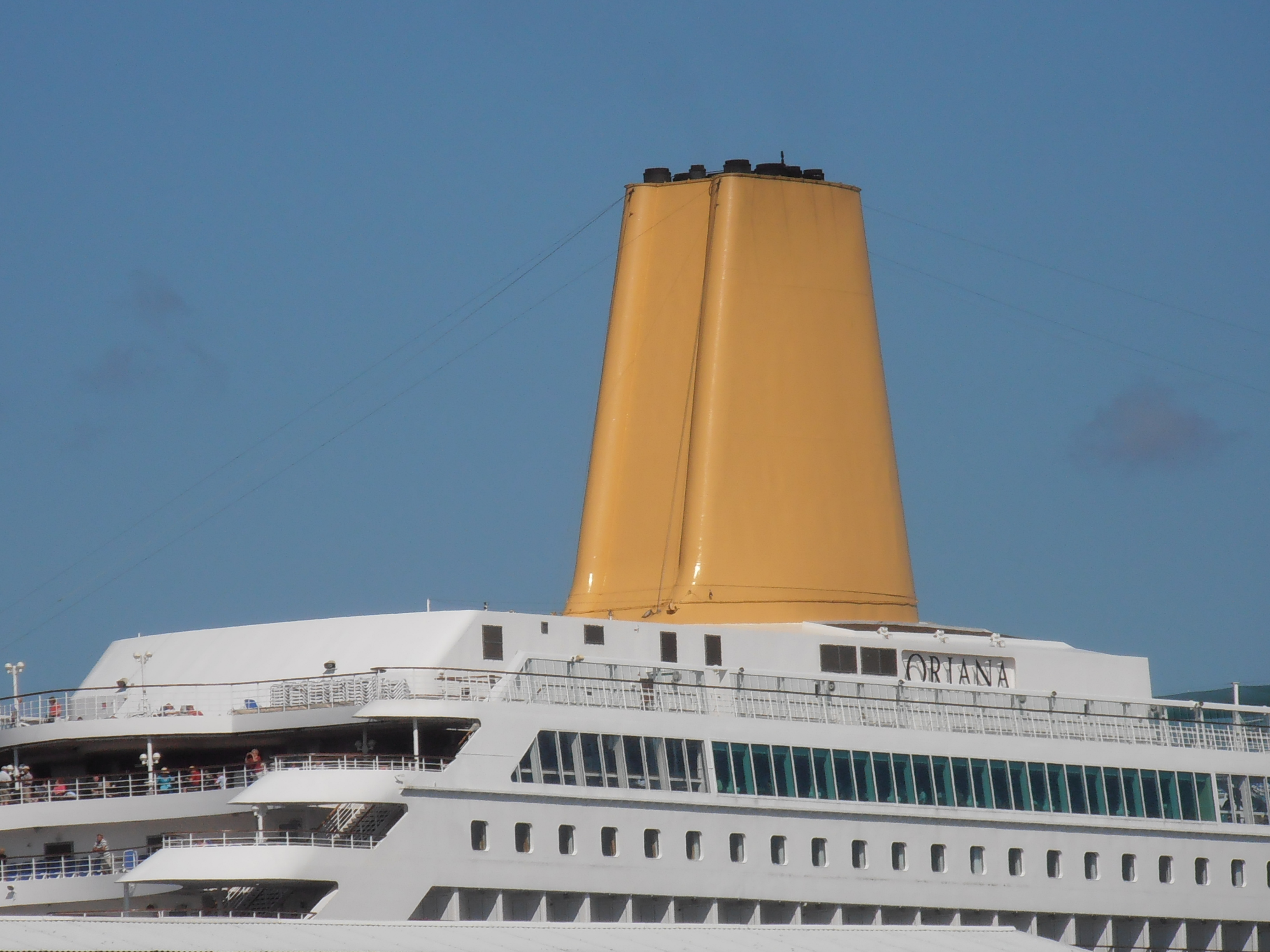 Oriana Funnel Tallinn 13 August 2012